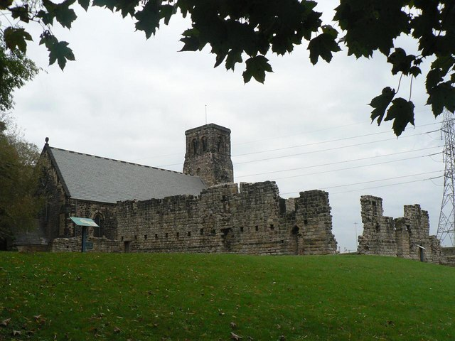 Jarrow, Tyne and Wear. The surviving wall of the west range of St Paul's Monastery, with St Paul's parish church beyond.